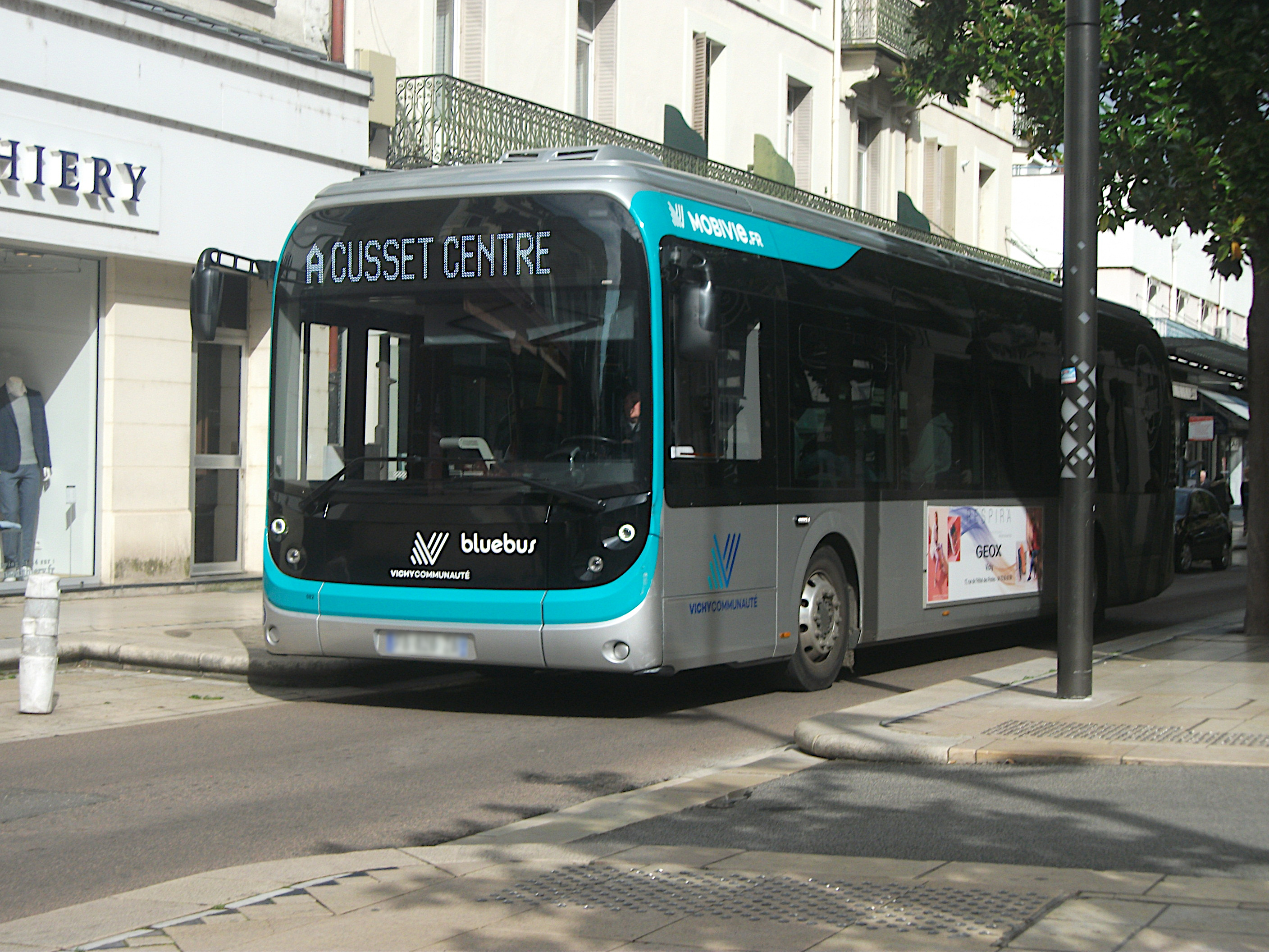 Bolloré Bluebus at Clemenceau stop (ligne A, direction Cusset Centre) in Vichy, Allier, Auvergne-Rhône-Alpes. On the right, one of the new street lights replaced in November 2019. [20094]